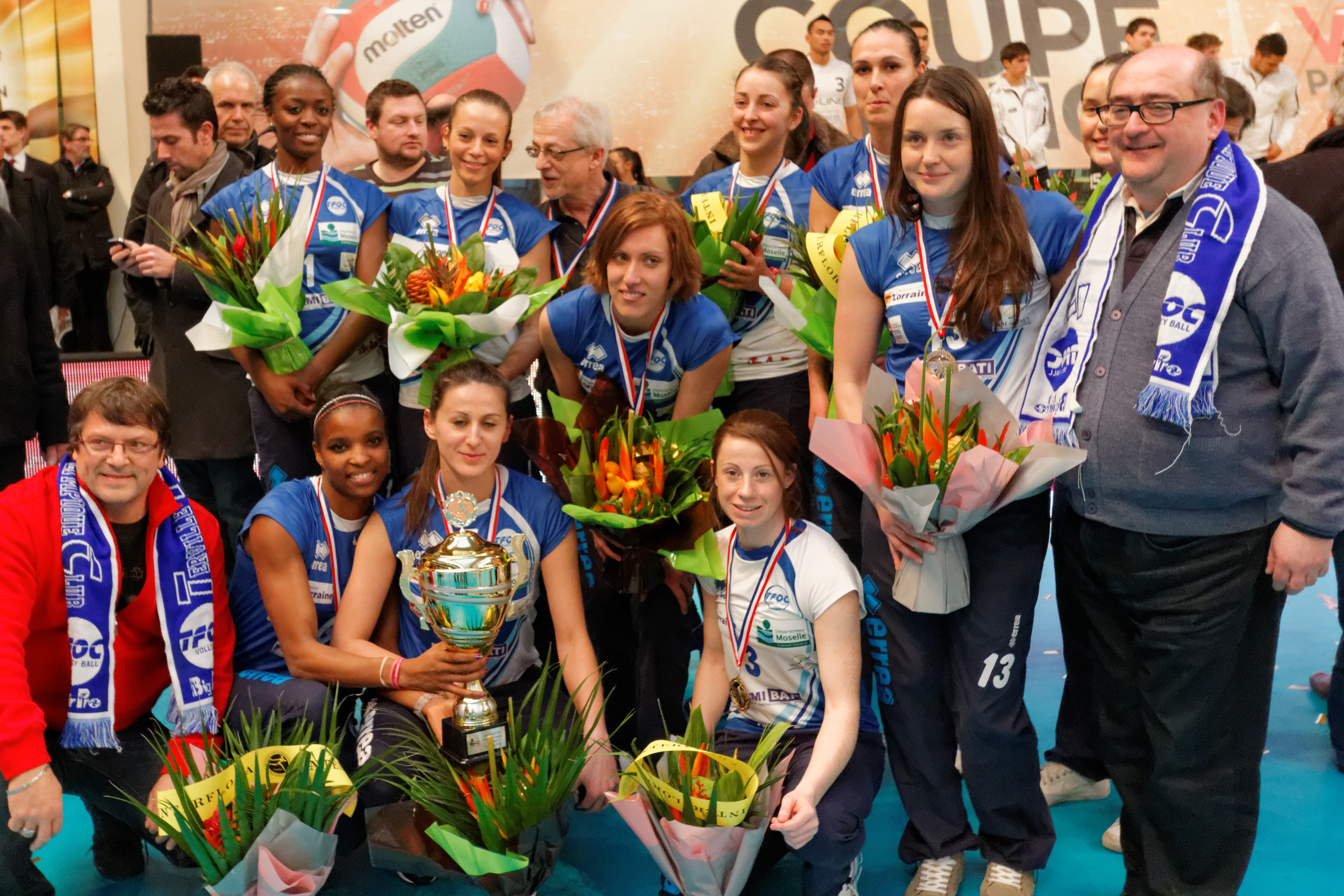 Final of the Volleyball French Cup, Vannes Volley-Ball - Terville Florange Olympique Club, March 30, 2013.